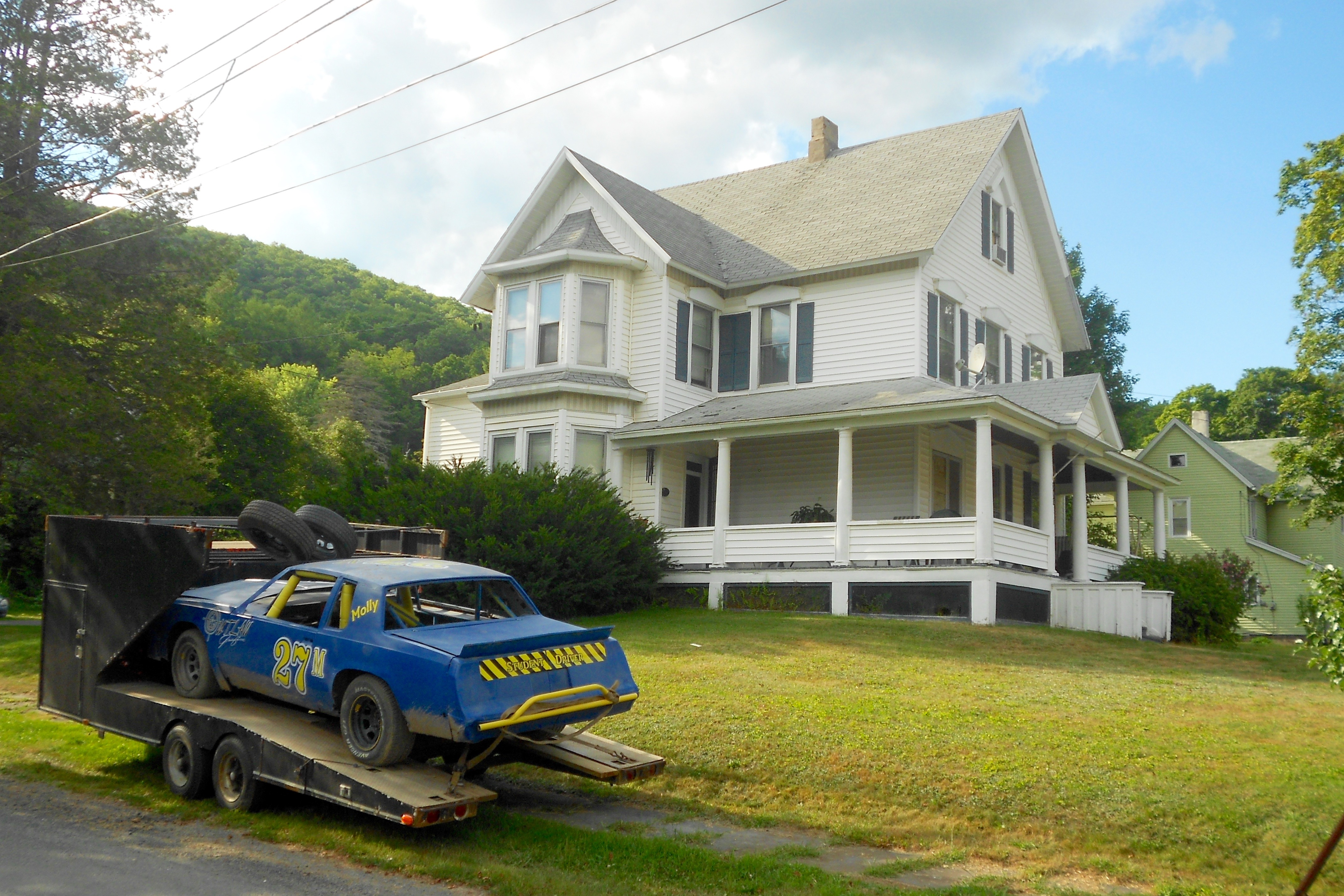 House and stock car in the borough of Oakland, Susquehanna County, Pennsylvania. Note that this Oakland is not the Oakland neighborhood in Pittsburg